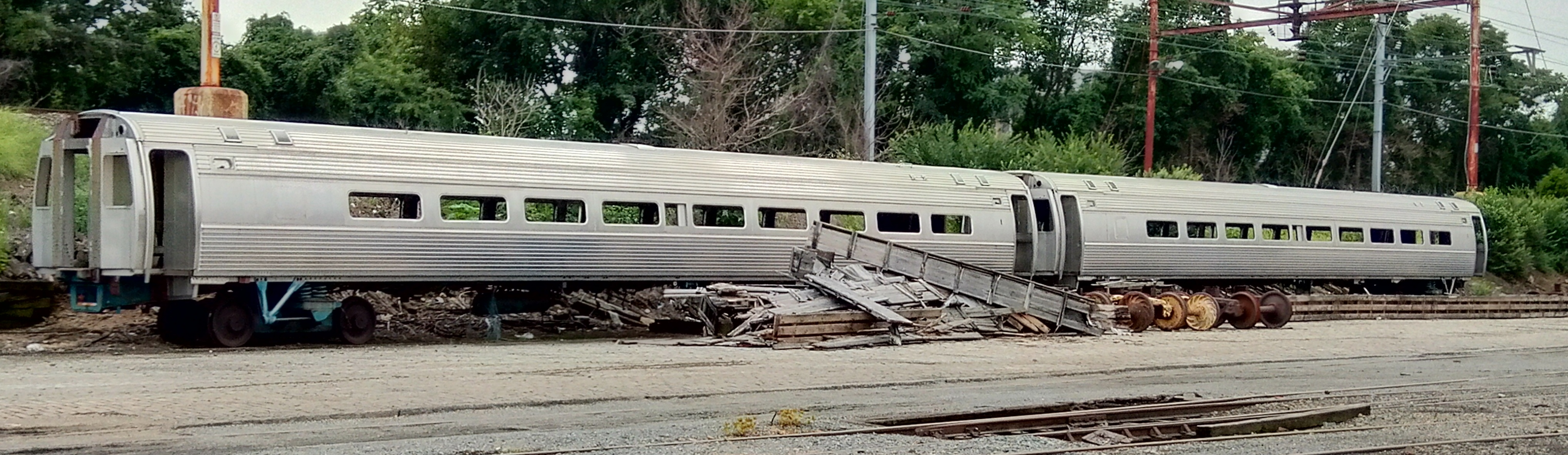 Unfinished Budd SPV-2000 railcar shells abandoned in a Wilmington industrial lot. Photo taken from 3rd Street. In the background: Amtrak's Northeast Corridor.